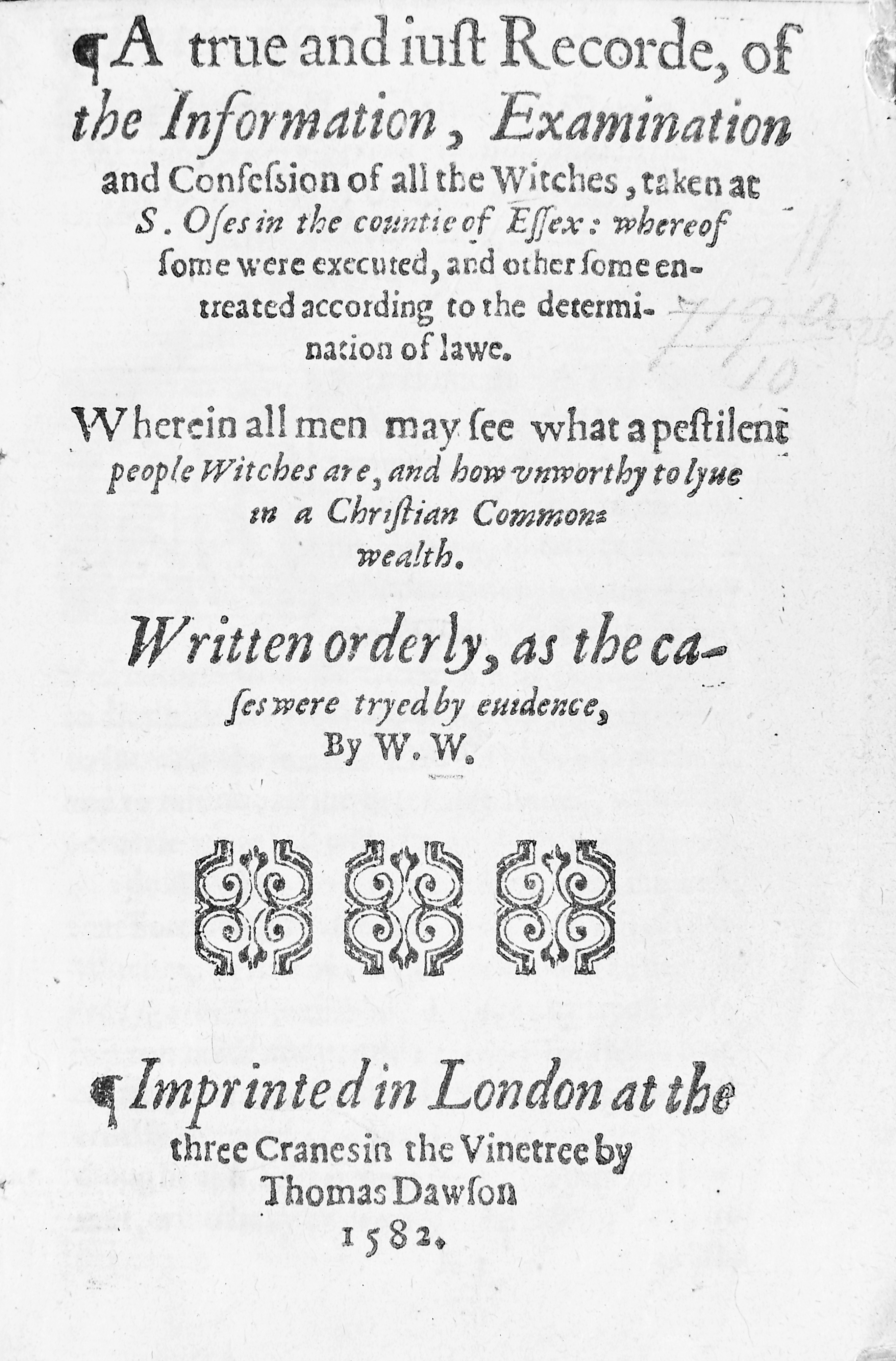 Title page Wellcome Images Keywords: Witchcraft